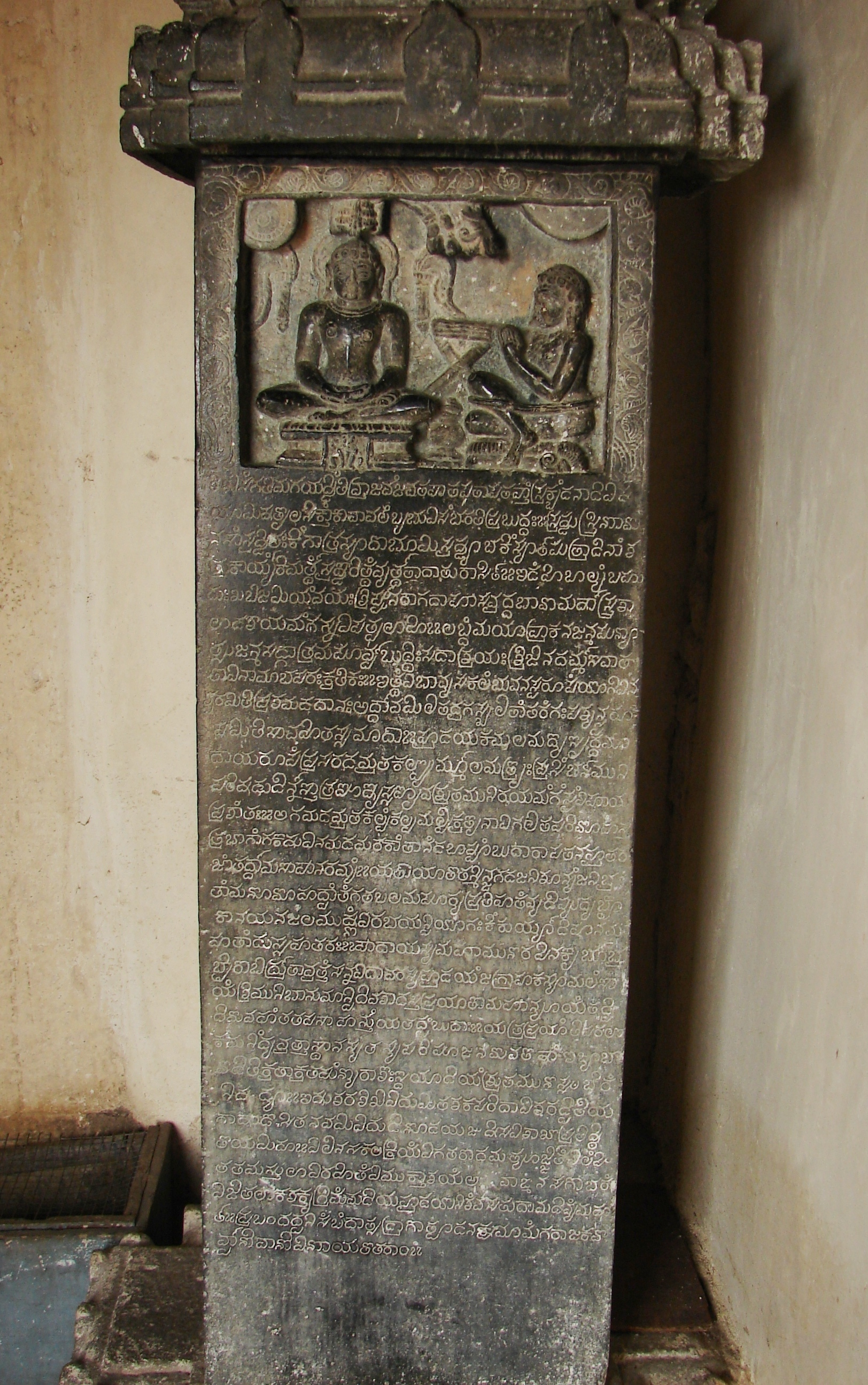 Photograph shows the nisidhi column of Malliṣeṇa Maladhārideva, the text was composed by Vijayanagar poet Malli­nātha and engraved by Gangācāri both were disciples of Malliṣeṇa Maladhārideva, in 1398 CE was taken by self (Dinesh Kannambadi) at Vindyagiri Hill temple complex, Shravanabelagola, Karnataka India